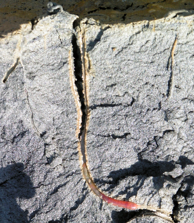 A young lugworm in his tube. Picture taken at Nationalpark Schleswig-Holsteinisches Wattenmeer, Germany, July 2006.